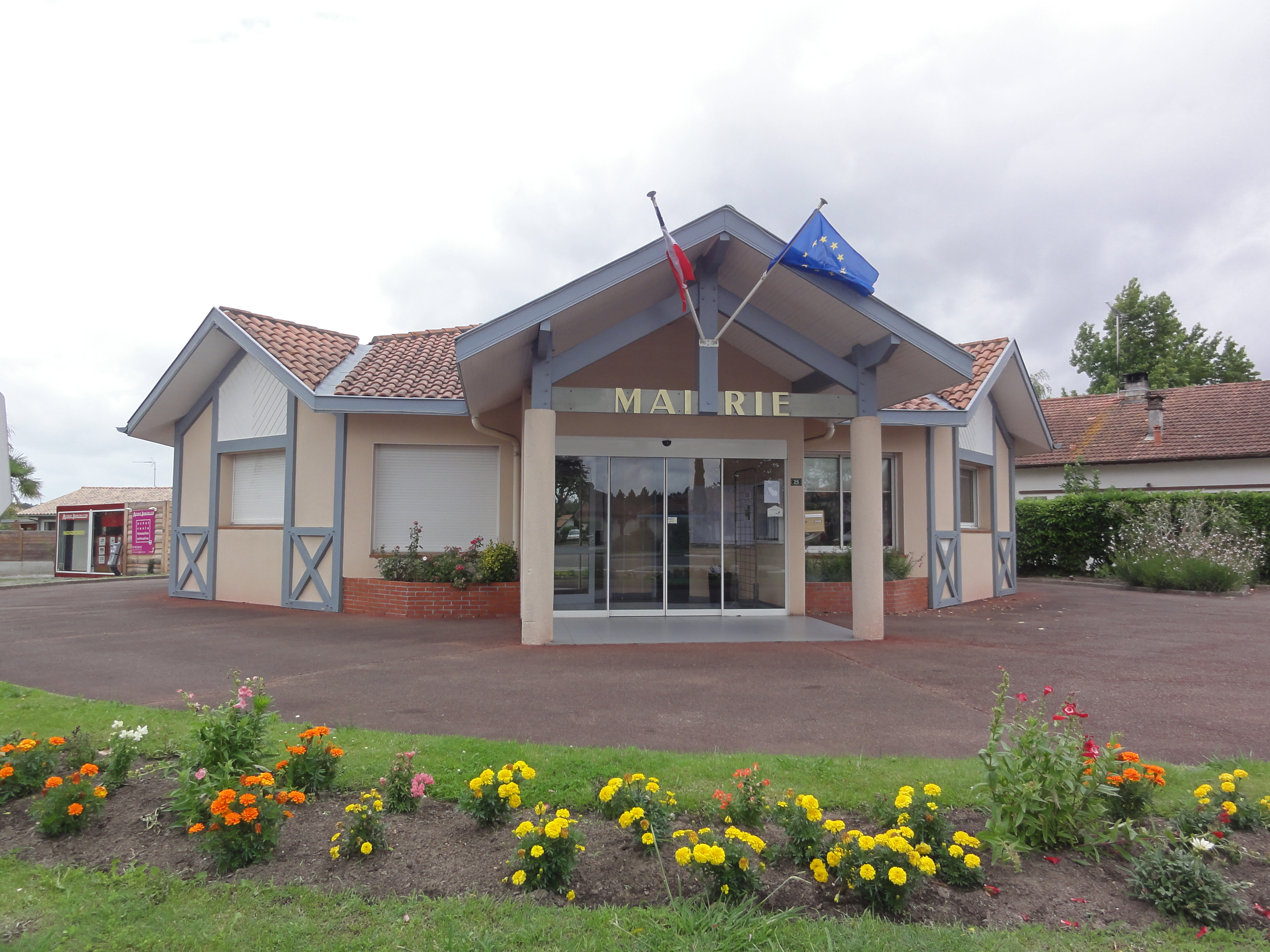 Saubion (Landes) mairie